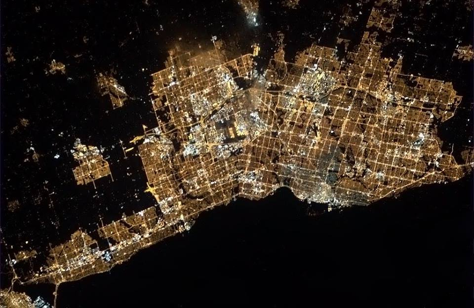 View of Toronto taken from the ISS by Col. Chris Hadfield. The dark area in the upper left is Lake Ontario. North is at the bottom of the image.